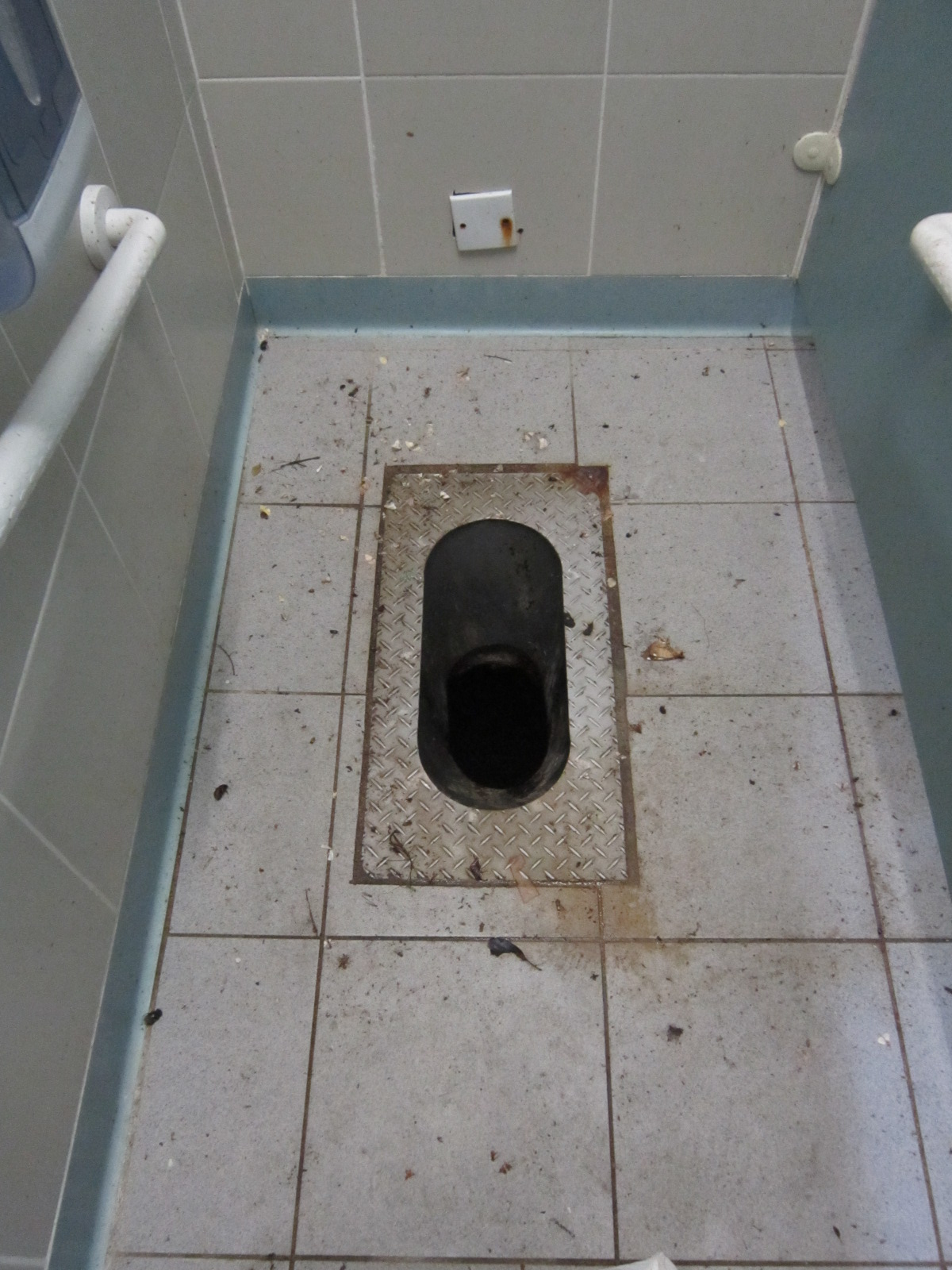 Toilet cubicle of Tseng Tau Pier Aqua Privy中文（香港）: 井頭碼頭旱廁廁格內部